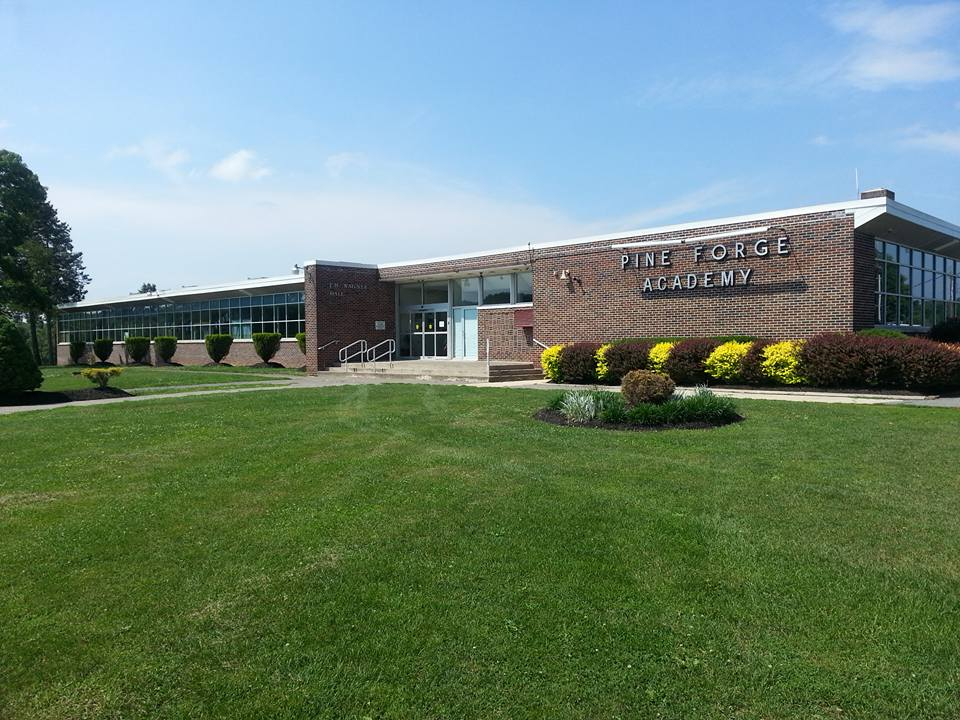 Pine Forge school building